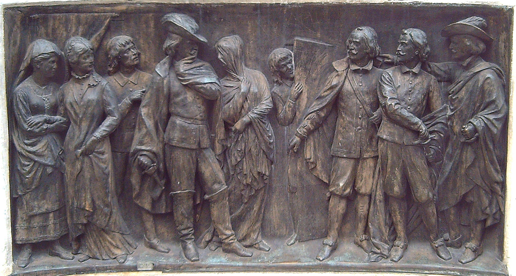 Bronze relief representing El escondido y la tapada (The Hidden Man and the Covered Woman). Detail of the monument to Pedro Calderón de la Barca (1600–1681) at the Plaza de Santa Ana (square) in Madrid (Spain), made of marble and bronze by Joan Figueras Vila (1829–1881) in 1878 and inaugurated in 1880.